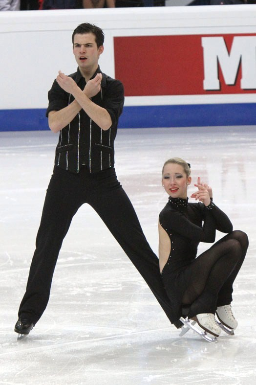 Stina Martini / Severin Kiefer at the 2011 European Figure Skating Championships.